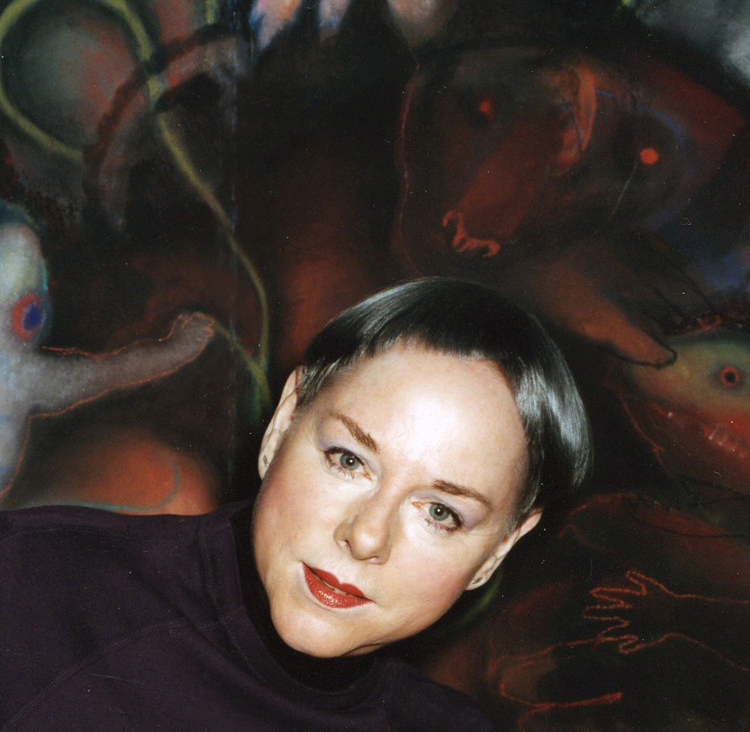 Portrait of artist Jan Harrison with one of her paintings in the background